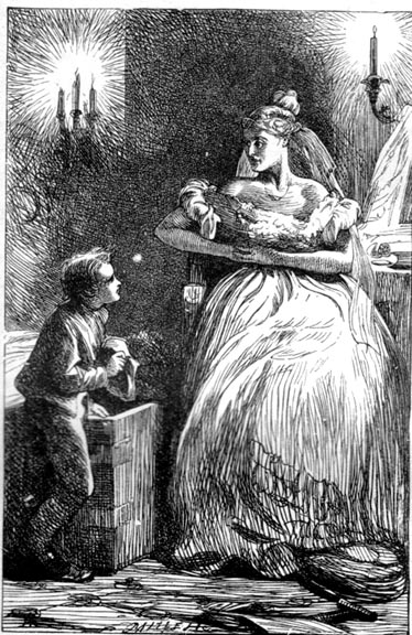 Pip entertains and waits upon Miss Havisham, by Marcus Stone